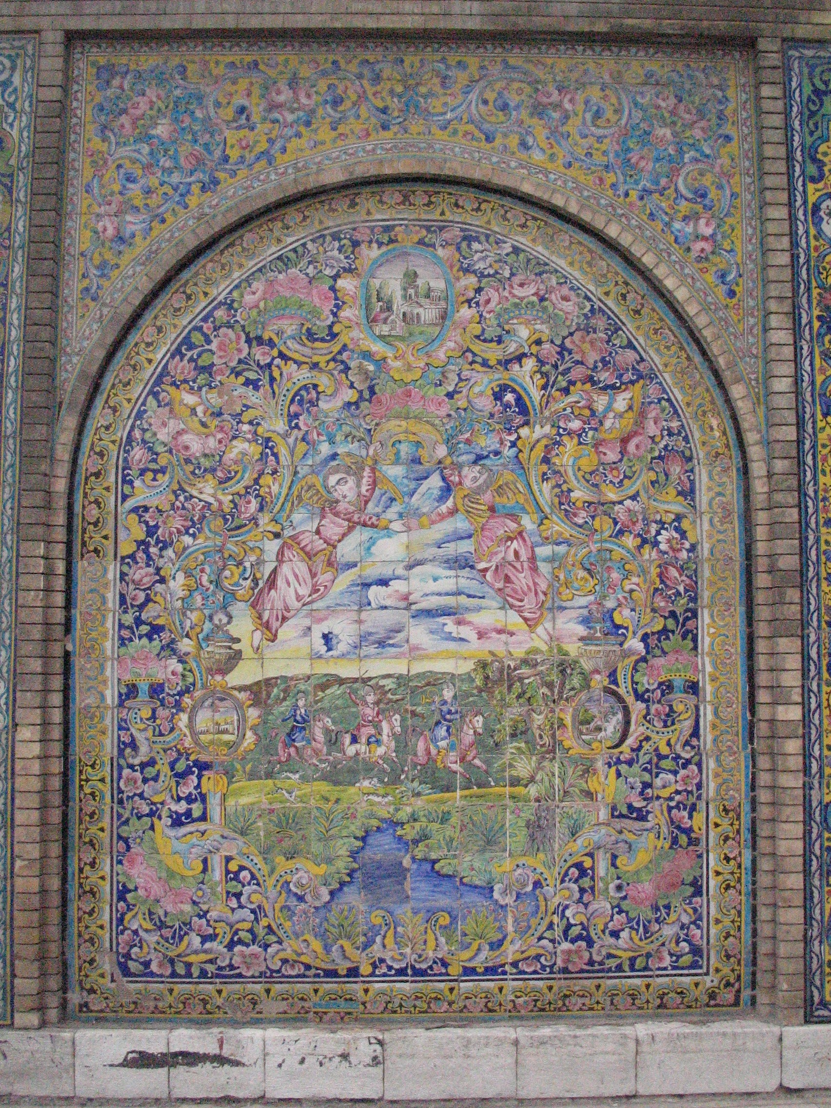 Tileworks on a wall inside Golestan Palace compounds, Tehran, Iran.